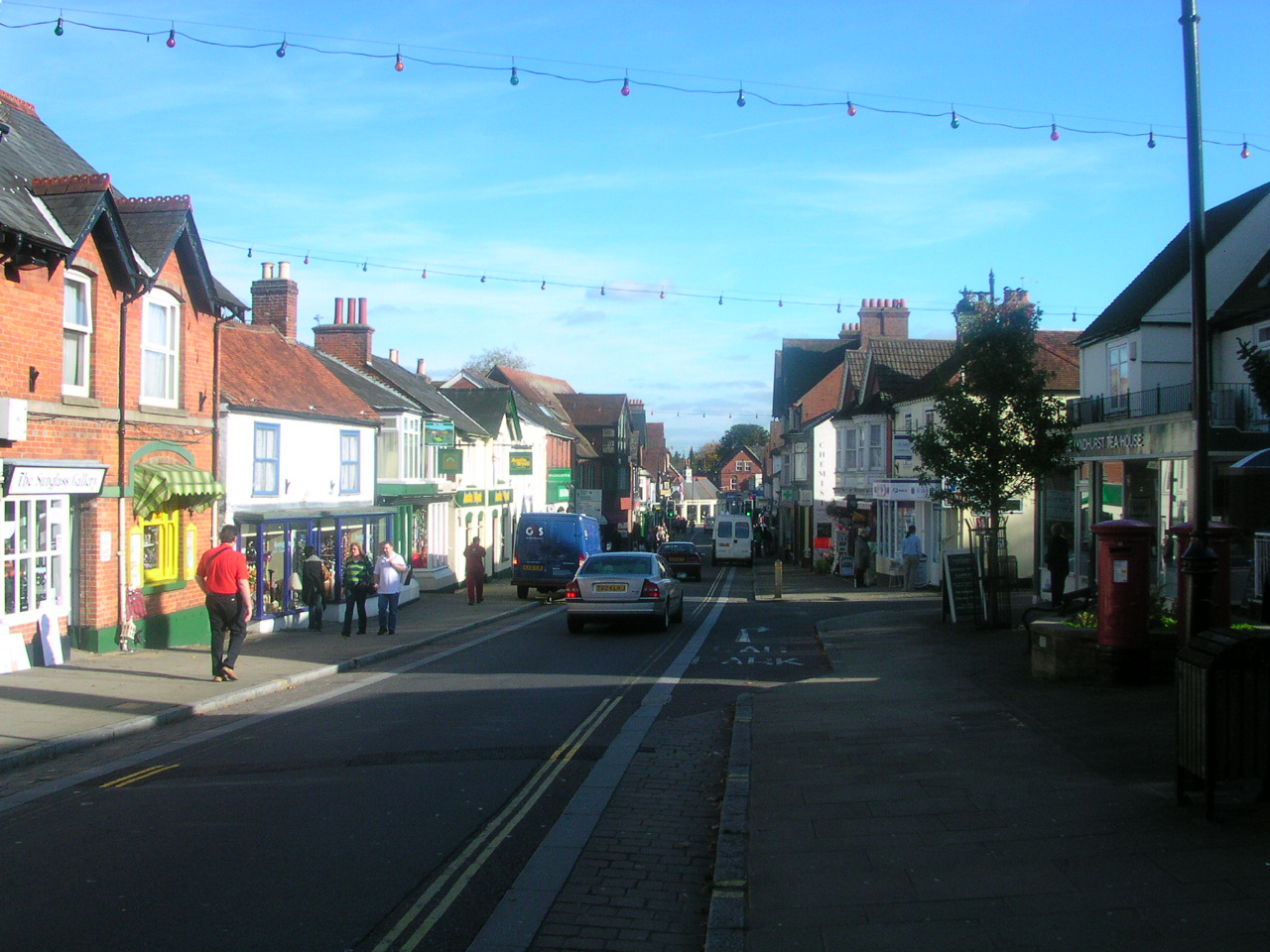 Taken at Lyndhurst, England in early November 2007.